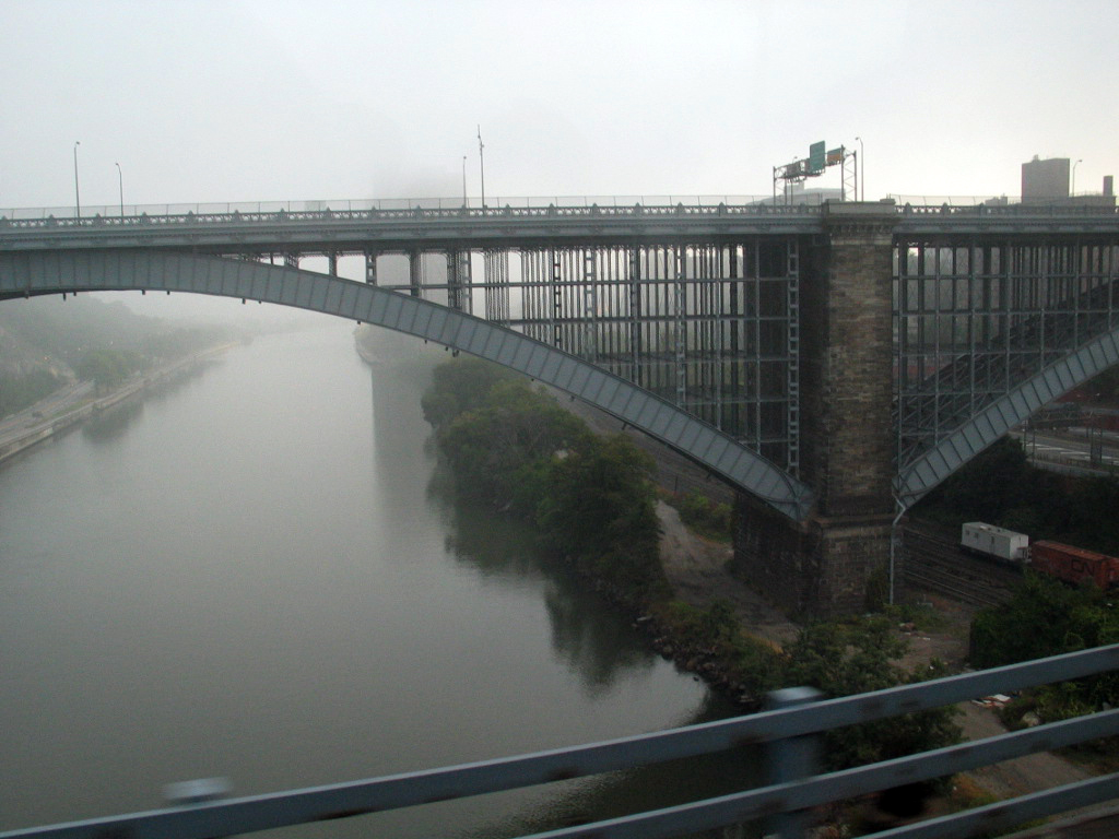 Looking Northward at the Harlem River